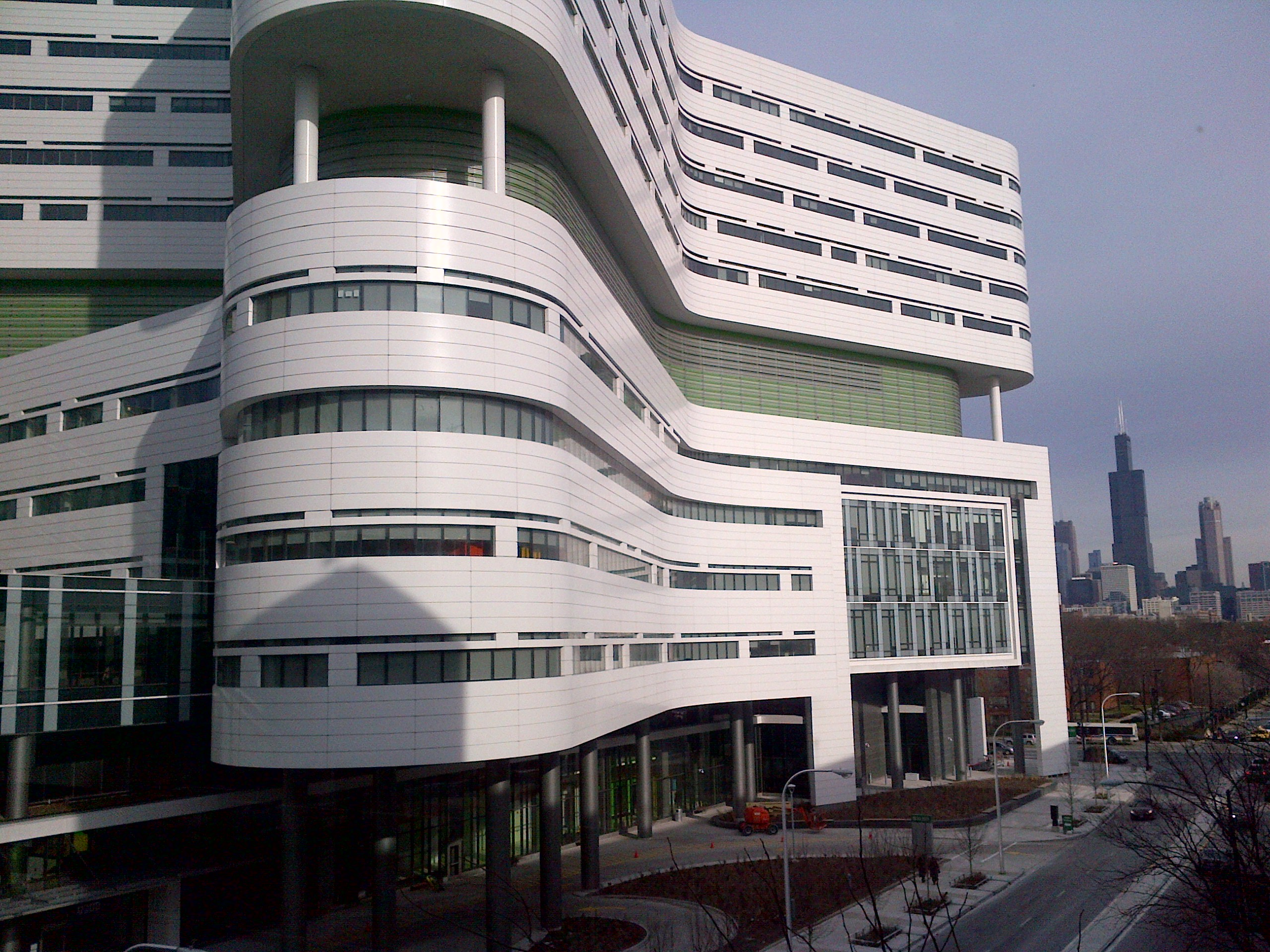 View of the south side of Rush University Medical Center Tower, looking east. Chicago skyline in background.